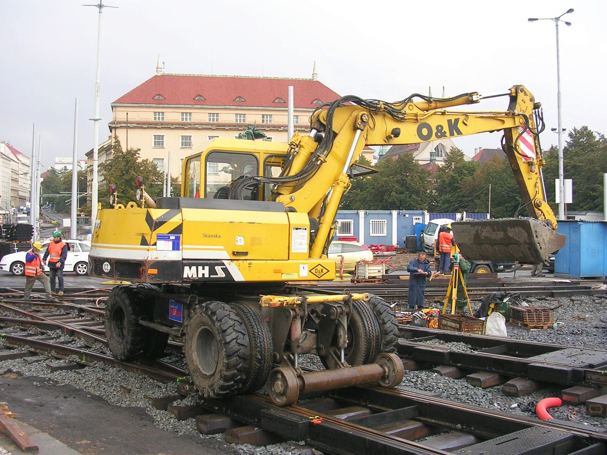 Palacký square, Prague-New Town, the Czech Republic.